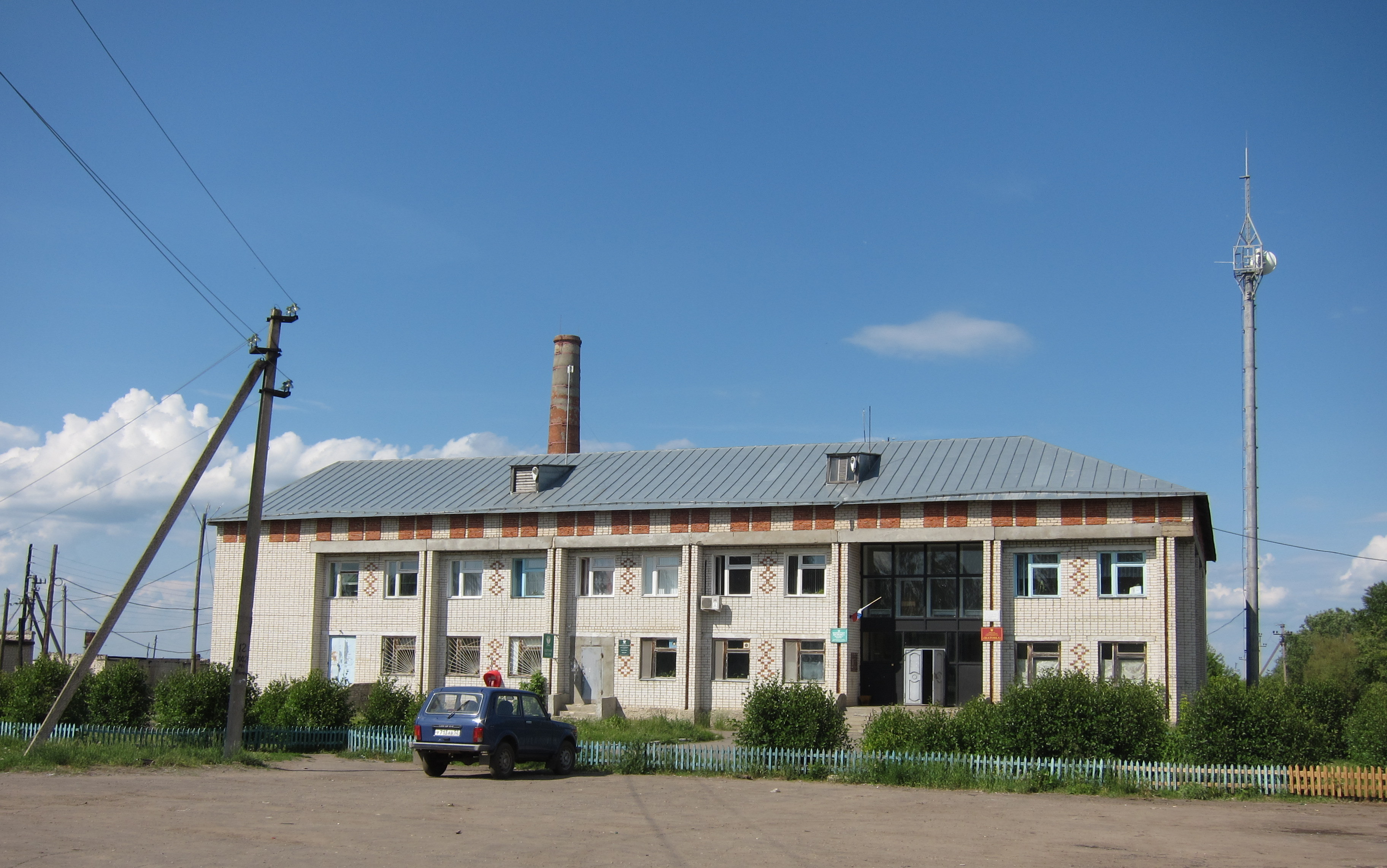 Authority office in village Shatovka, Nizhny Novgorod Oblast.